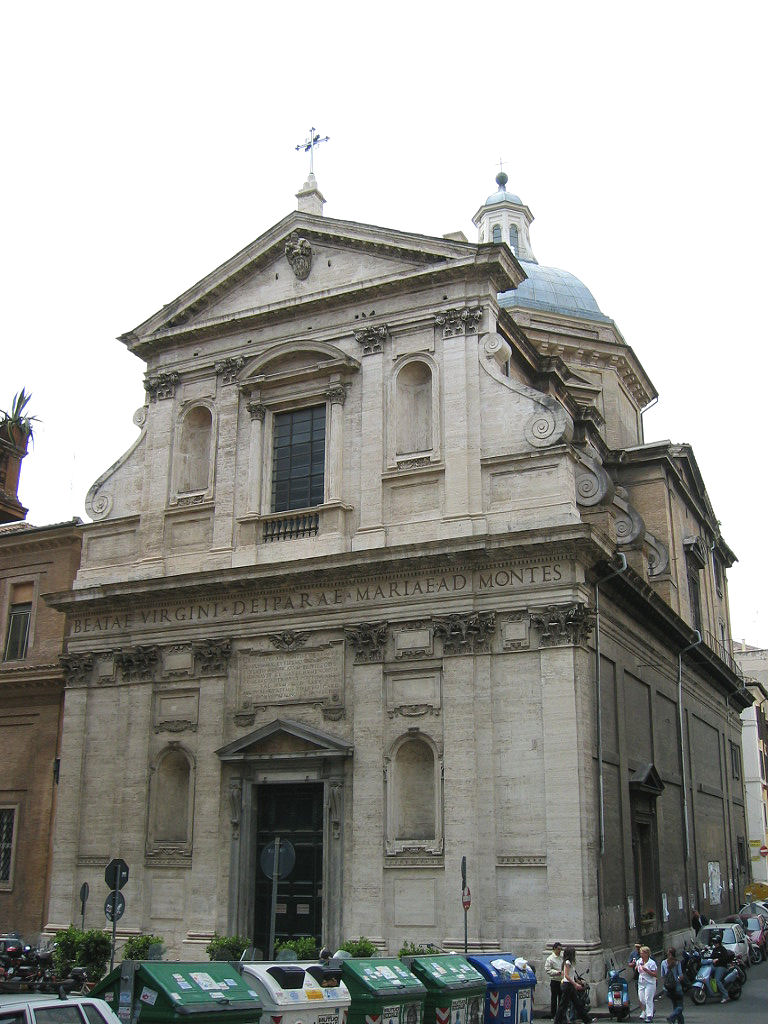 Church of Madonna dei Monti, Rome. Picture taken by User:Torvindus.